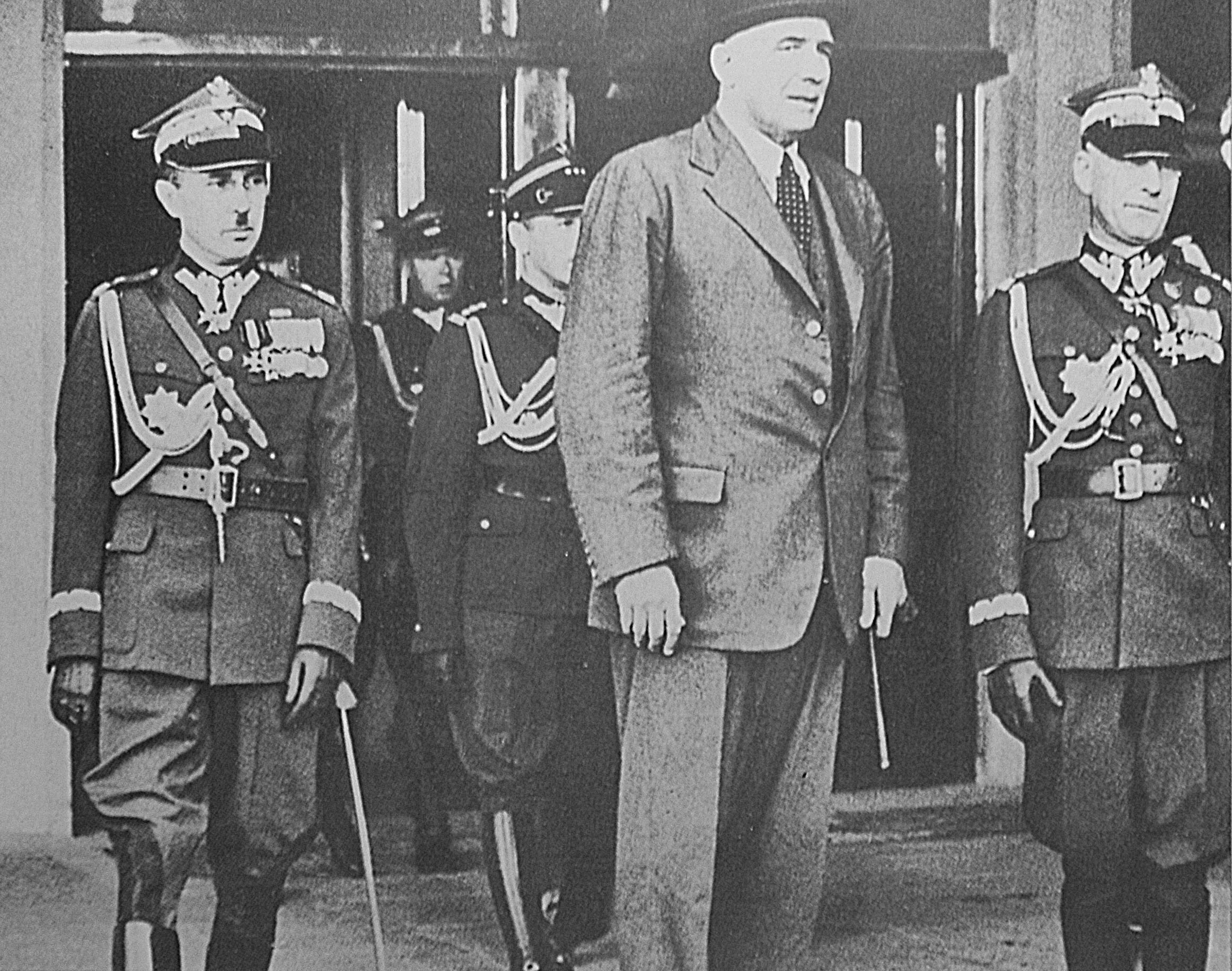 Polish chief of staff Wacław Stachiewicz with Edmund Ironside.